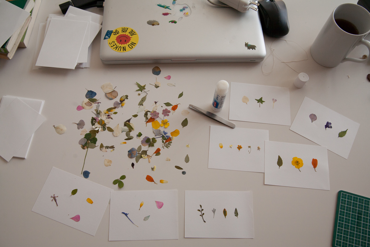 Dried flowers and cards at an Oshibana (dried flower cart) workshop hosted by Suhee Kang and Patrick M. Lydon in Osaka, Japan